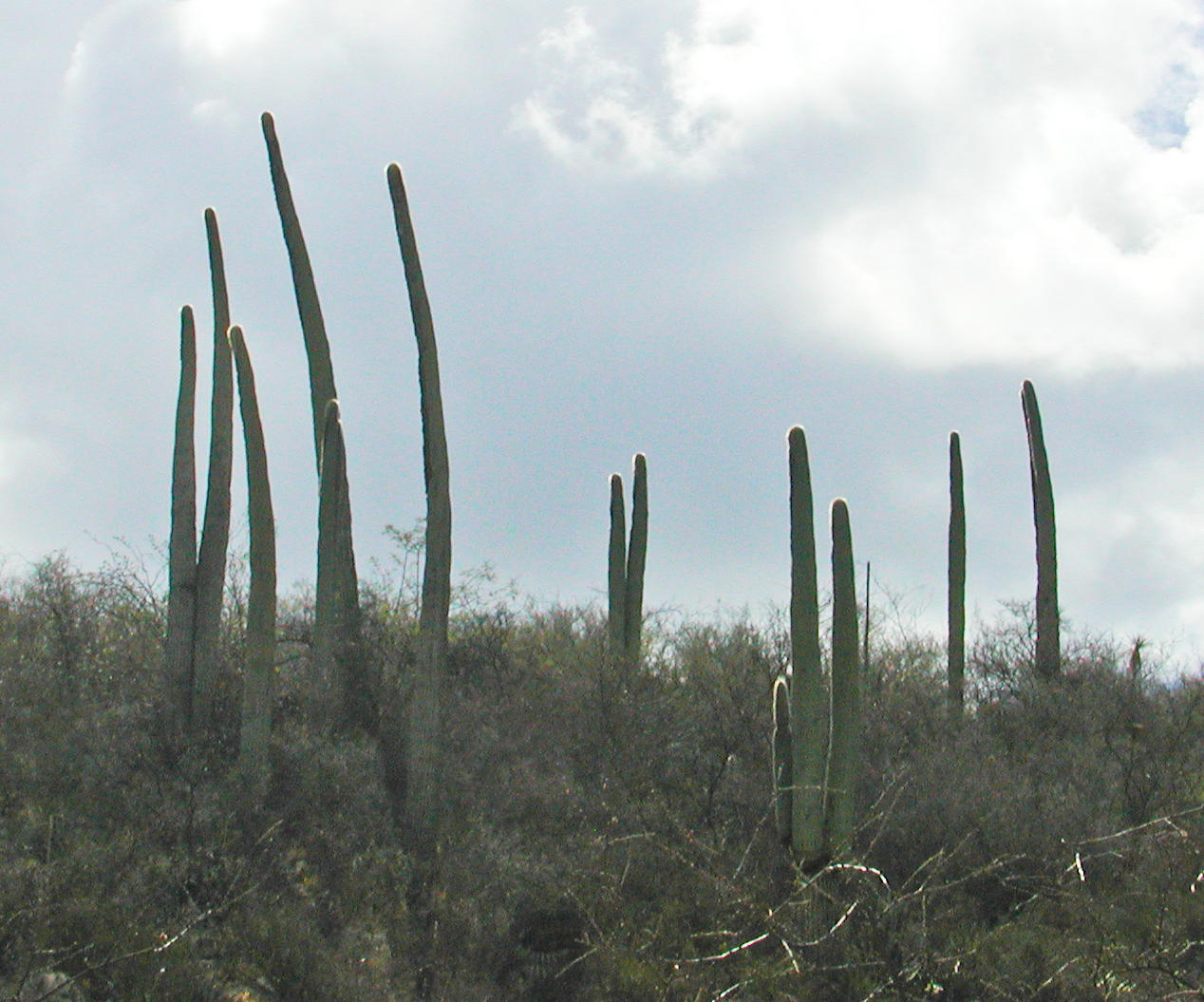 Cephalocereus columna-trajani, also known as Cephalocereus hoppenstedtii. Near Tehuacán, southeastern Puebla state, Central México. Tehuacán Valley matorral ecoregion, Tehuacán-Cuicatlán Biosphere Reserve.